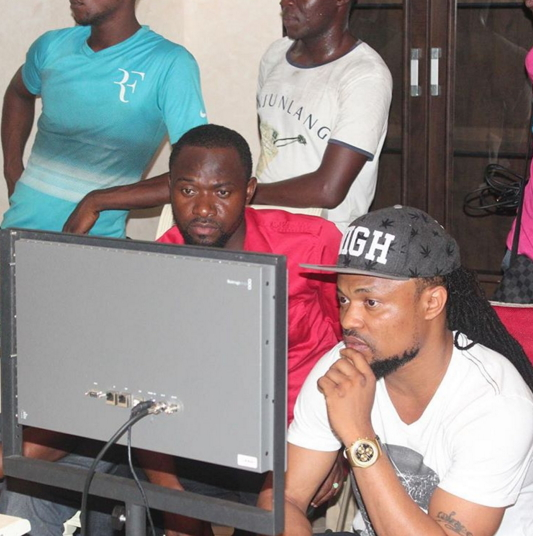 On location